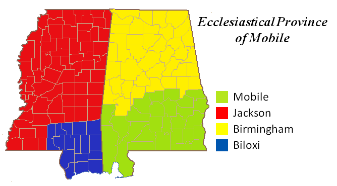 The Ecclesiastical Province of Mobile in the Catholic Church encompasses the diocese's in Alabama and Mississippi, USA.